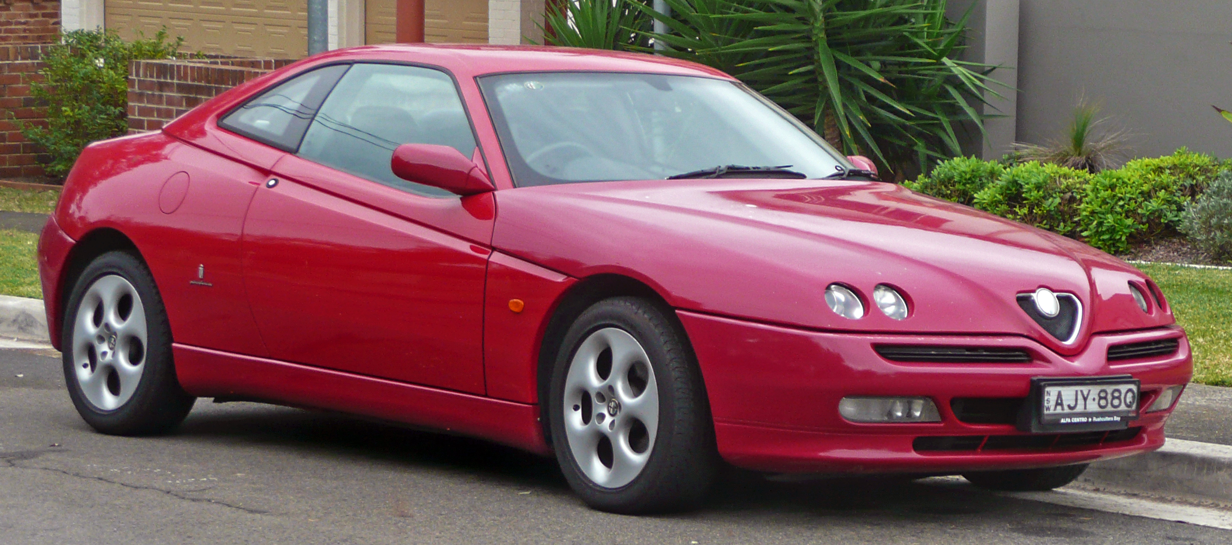 2001 Alfa Romeo GTV Twin Spark coupe. Photographed in Cronulla, New South Wales, Australia.